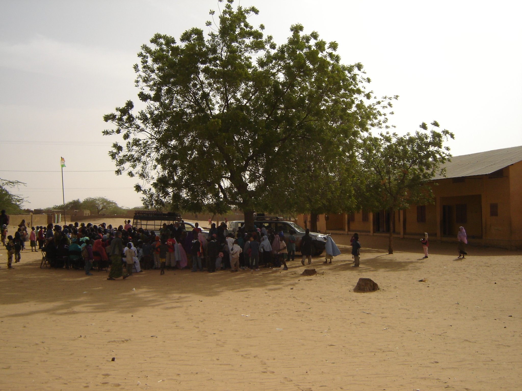 During recess we got the chance to teach the kids about eye disease too.